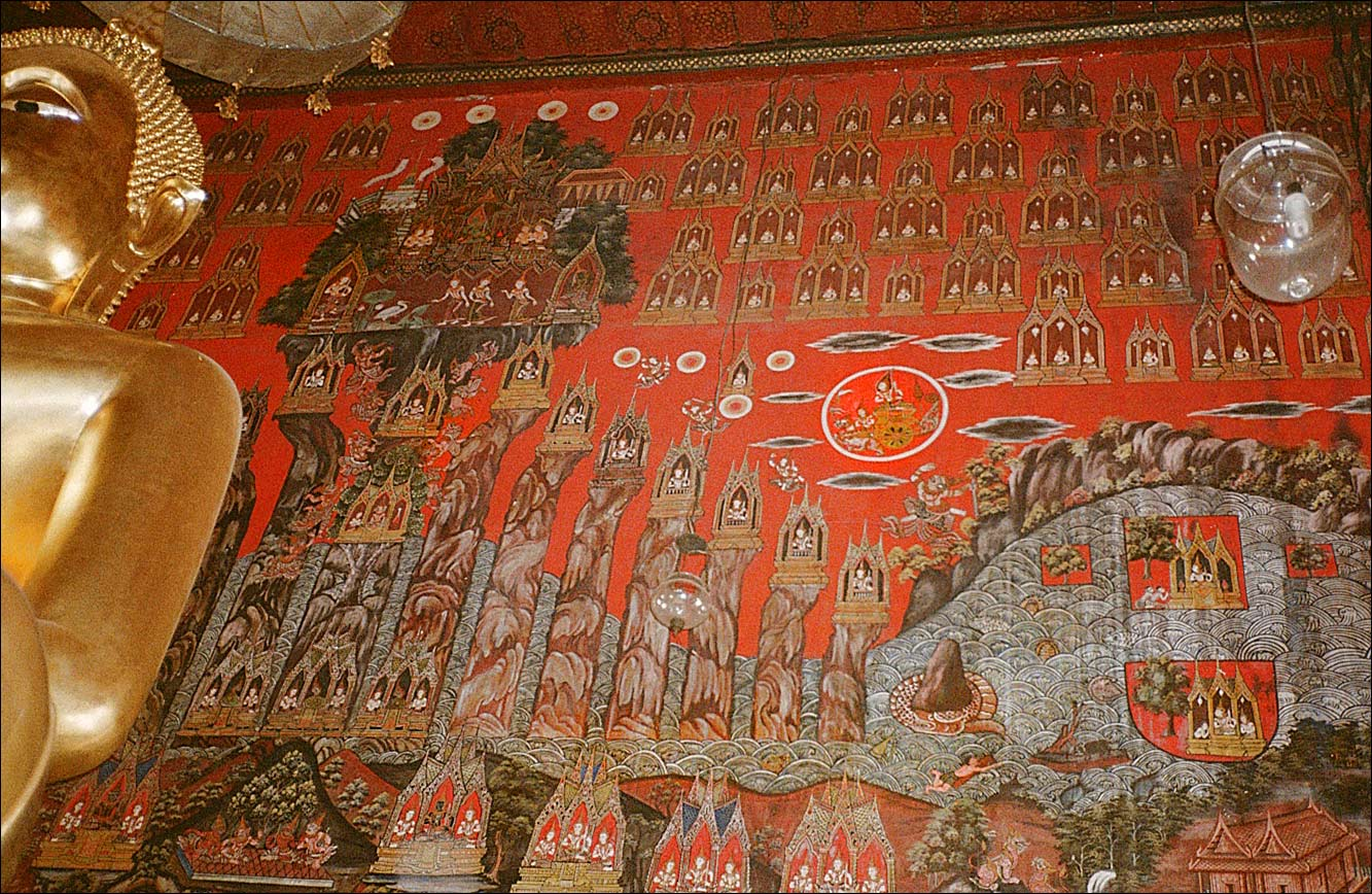 Mt. Meru, Mural Wat Sakhet, Bangkok, own Photo 2001